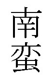 The japanese characters for Nanban, lit. "Southern barbarian".